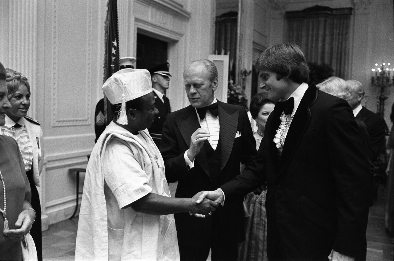 September 21, 1976: "As usual, the guest list for this dinner included individuals from a wide variety of fields. President Ford and President William Tolbert of Liberia greeted athlete Bruce Jenner, who had won the gold medal in the decathlon at the 1976 Summer Olympics, in the receiving line."